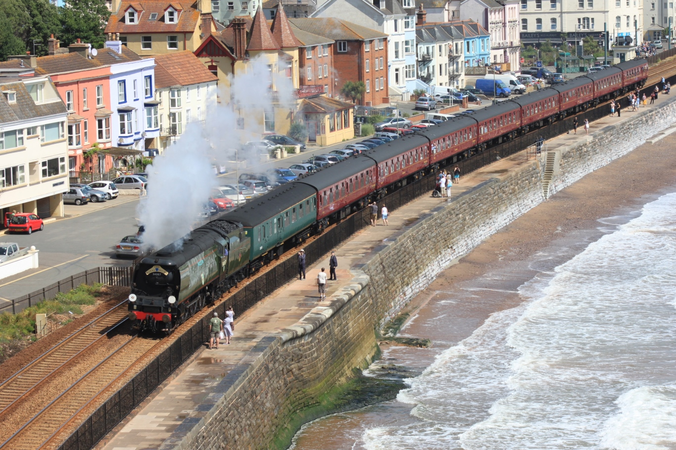 34067 Tangmere attracts plenty of attention as it steams south through Dawlish with a 'Royal Duchy' service from Bristol to Par.